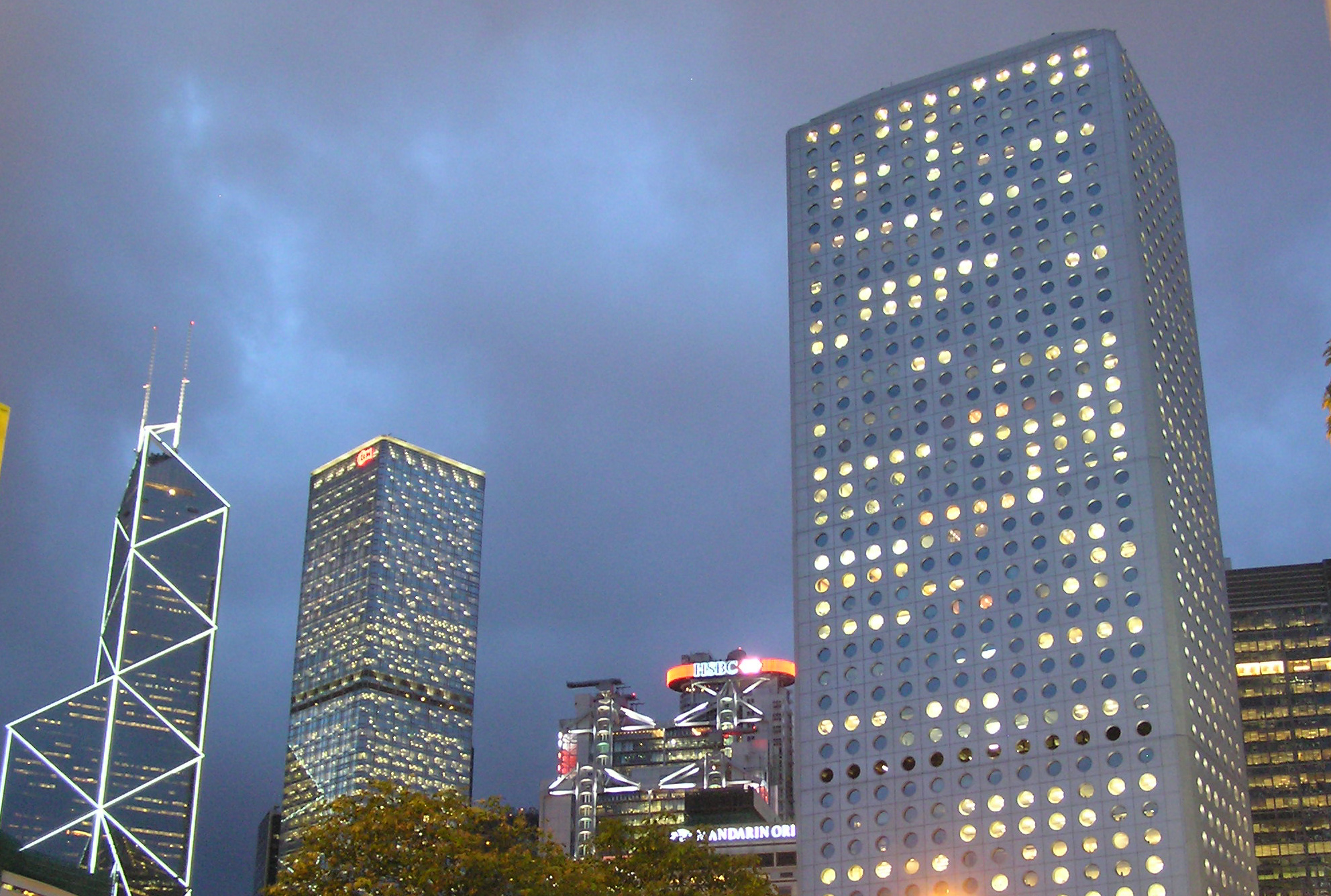 BOC Tower, HSBC Main Building, Cheung Kong Centre and Jardine House in Central, Hong Kong